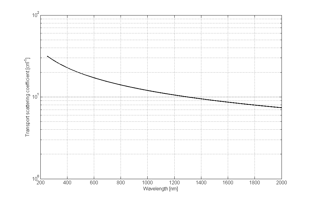 Transport scattering coefficient spectrum of human breast tissue